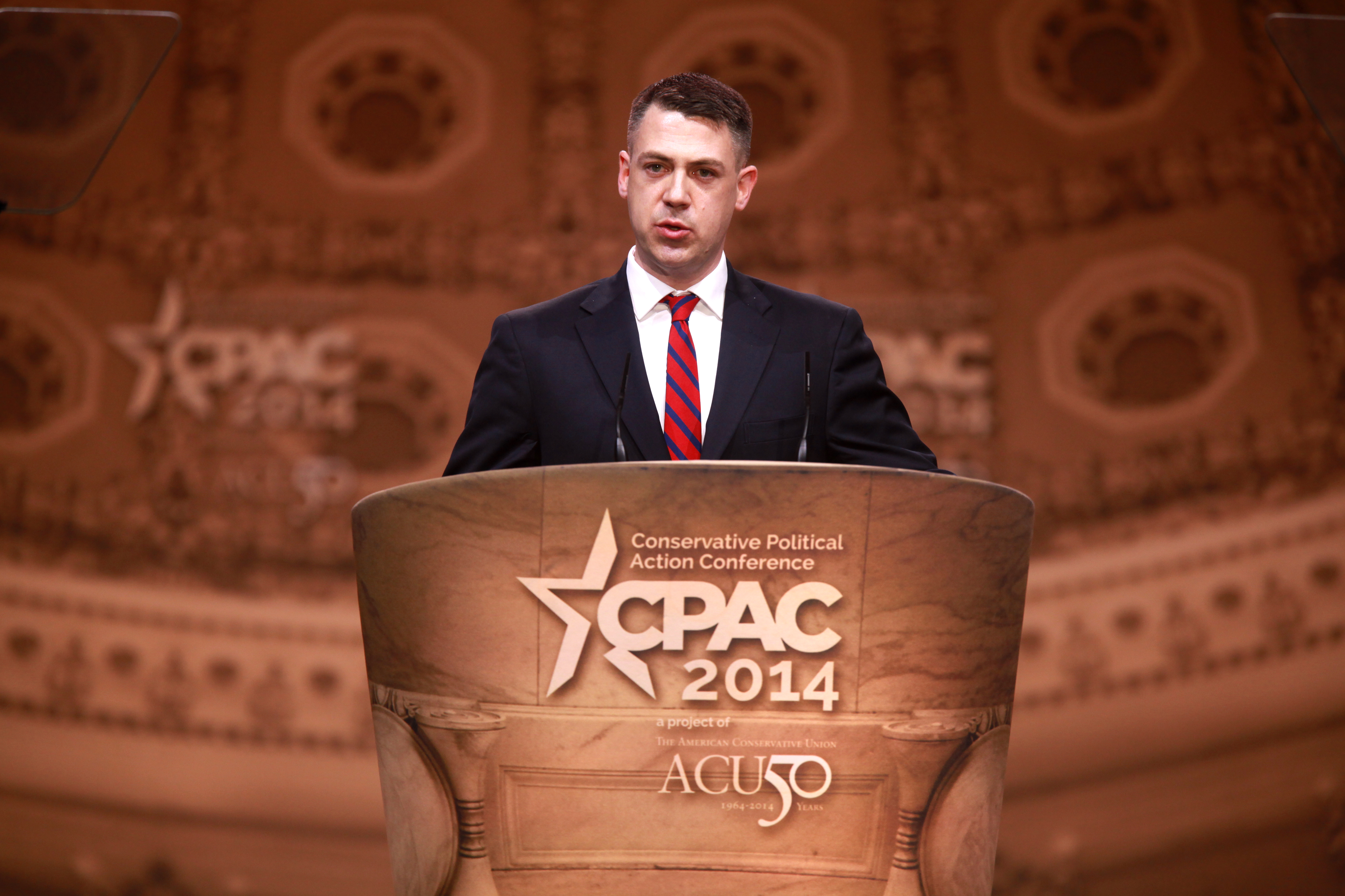 State Senator Jim Banks of Indiana speaking at the 2014 Conservative Political Action Conference (CPAC) in National Harbor, Maryland.